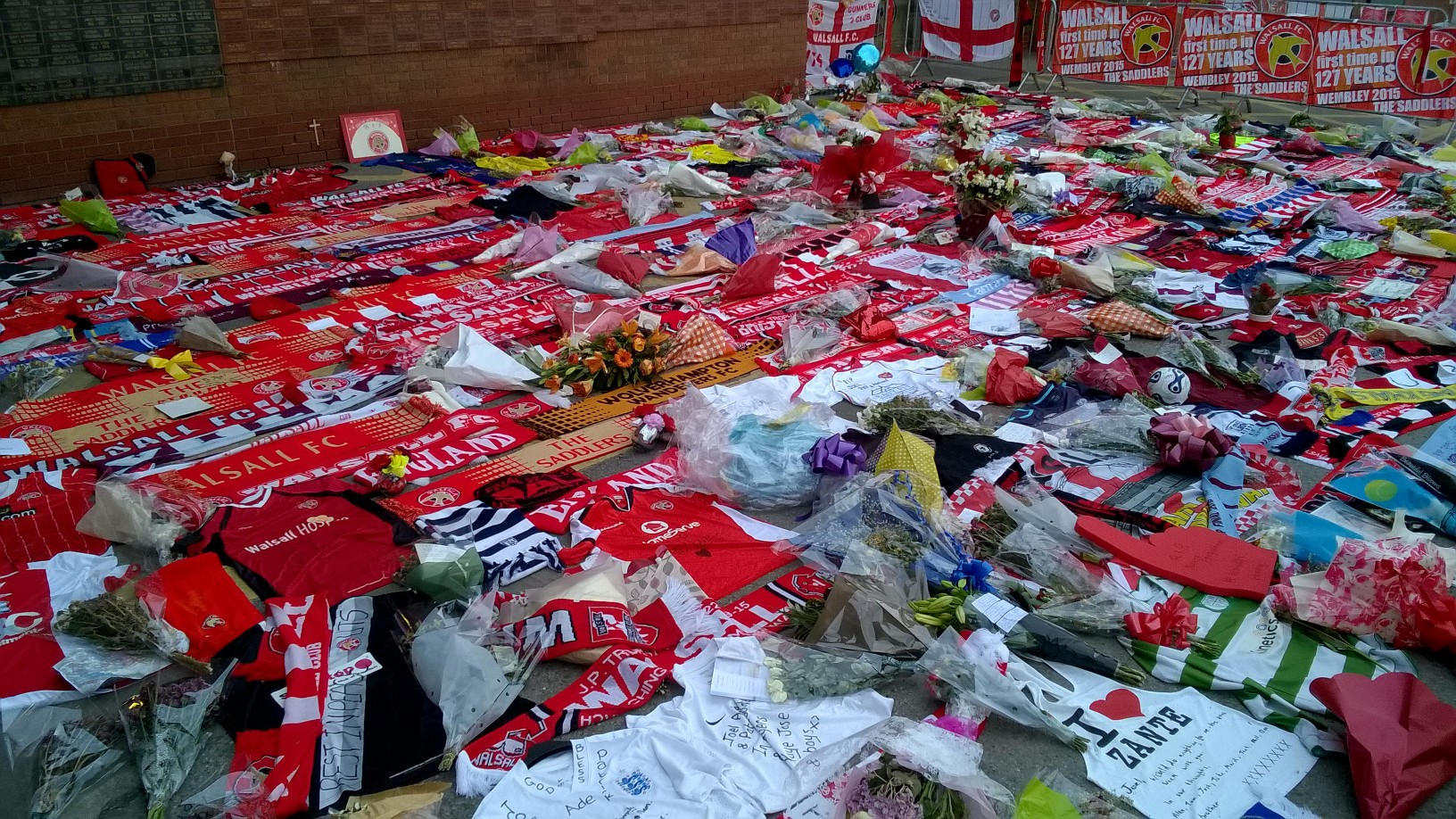 Tributes laid outside Bescot Stadium to three of the victims of the 2015 Sousse terror attack. I took the picture myself.